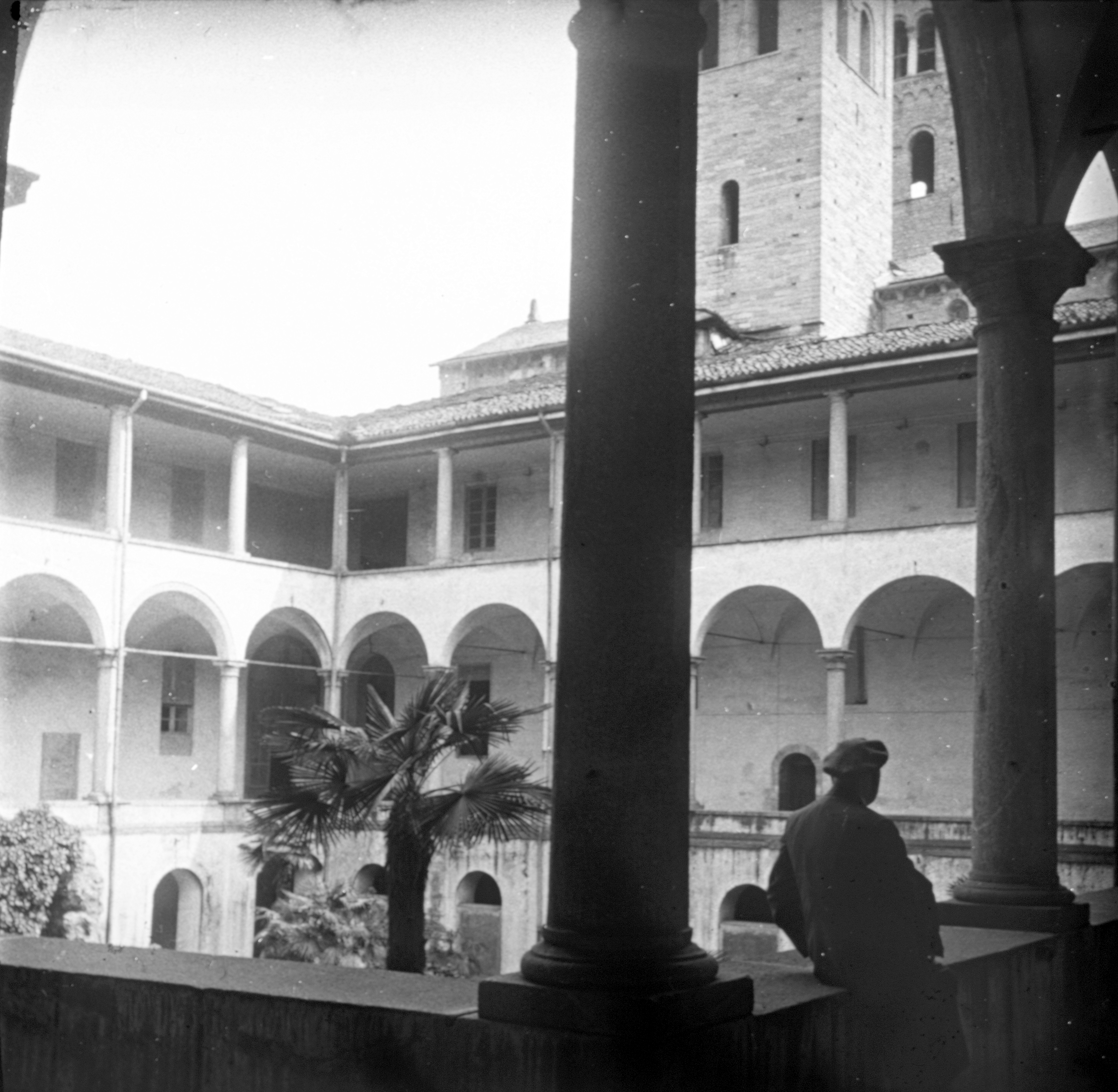 Sant'Abbondio (Como) - Cloister Stereo photos of different places in Italy